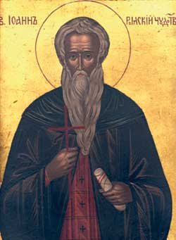 Icon of Saint Ivan Rilski, 10th century